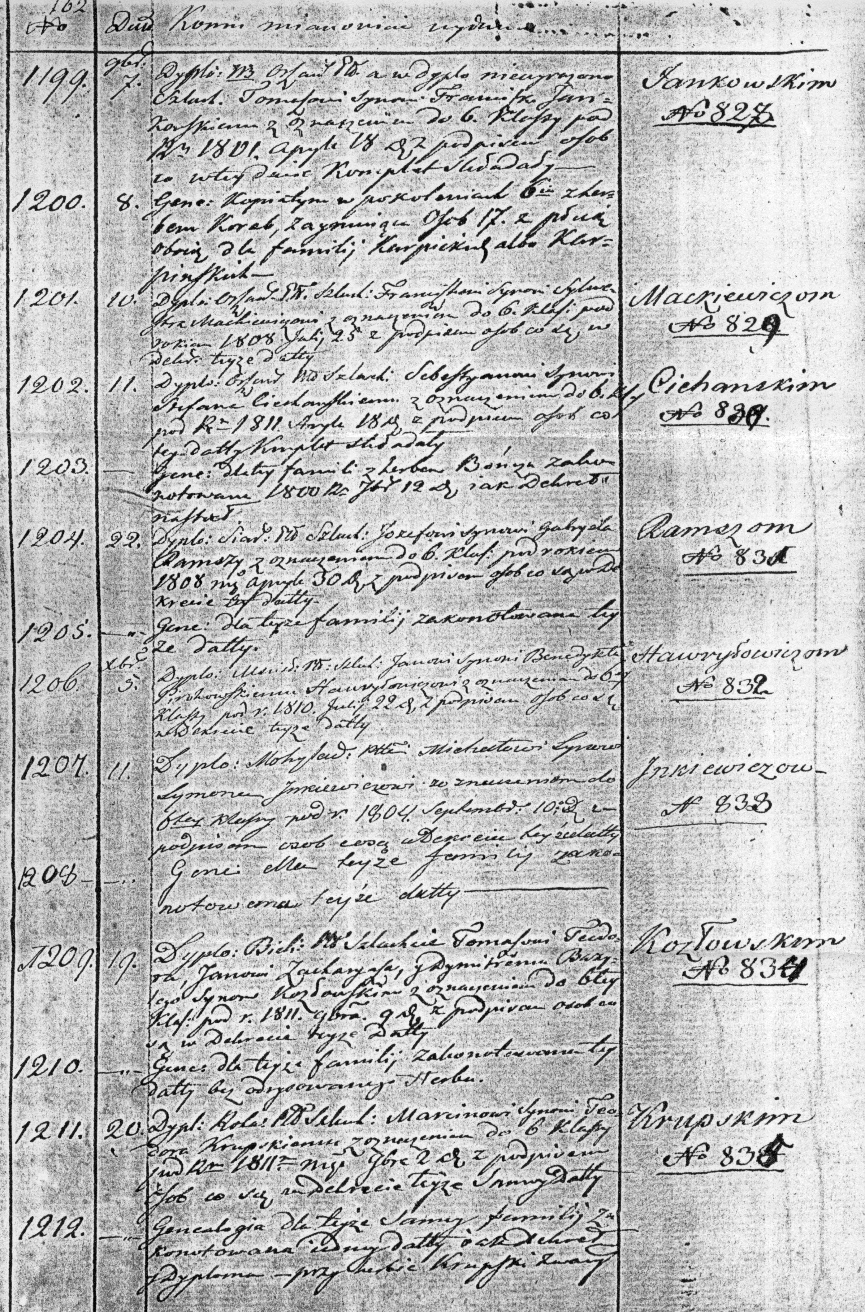 Certificate for the extradition of genealogy and Noble Diploma # 835 for Russian nobleman Mogilev province Mr. Krupski Martsyn Fyodorovich in 1811